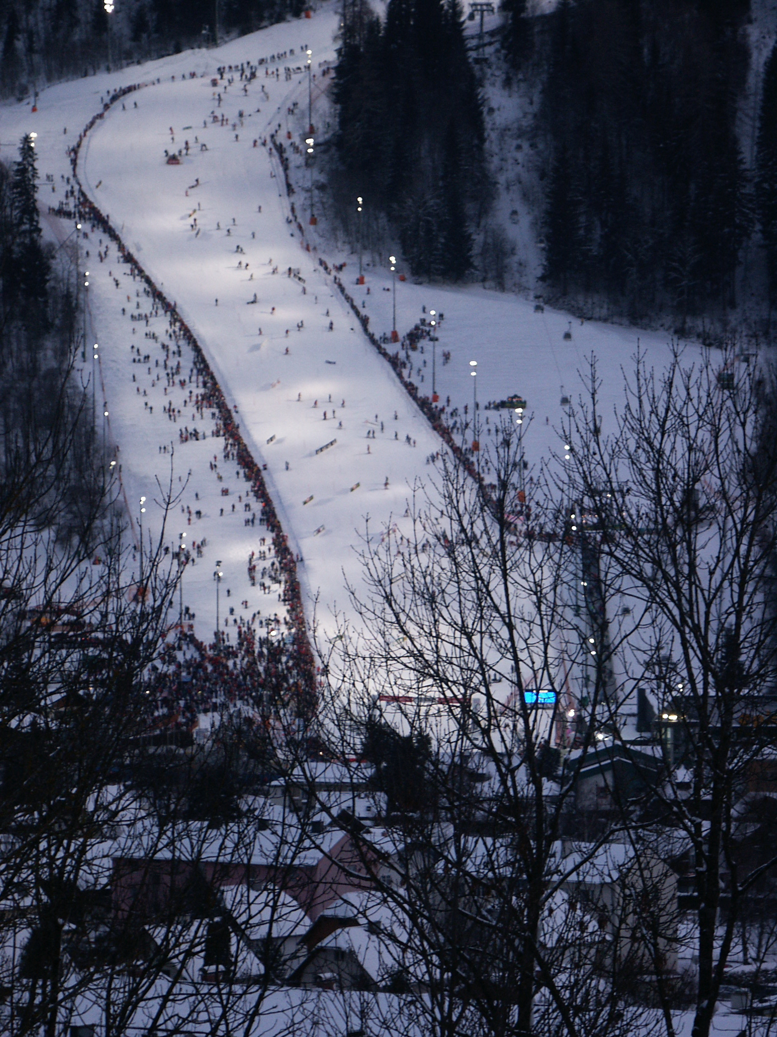 Schladming, Styria, Austria